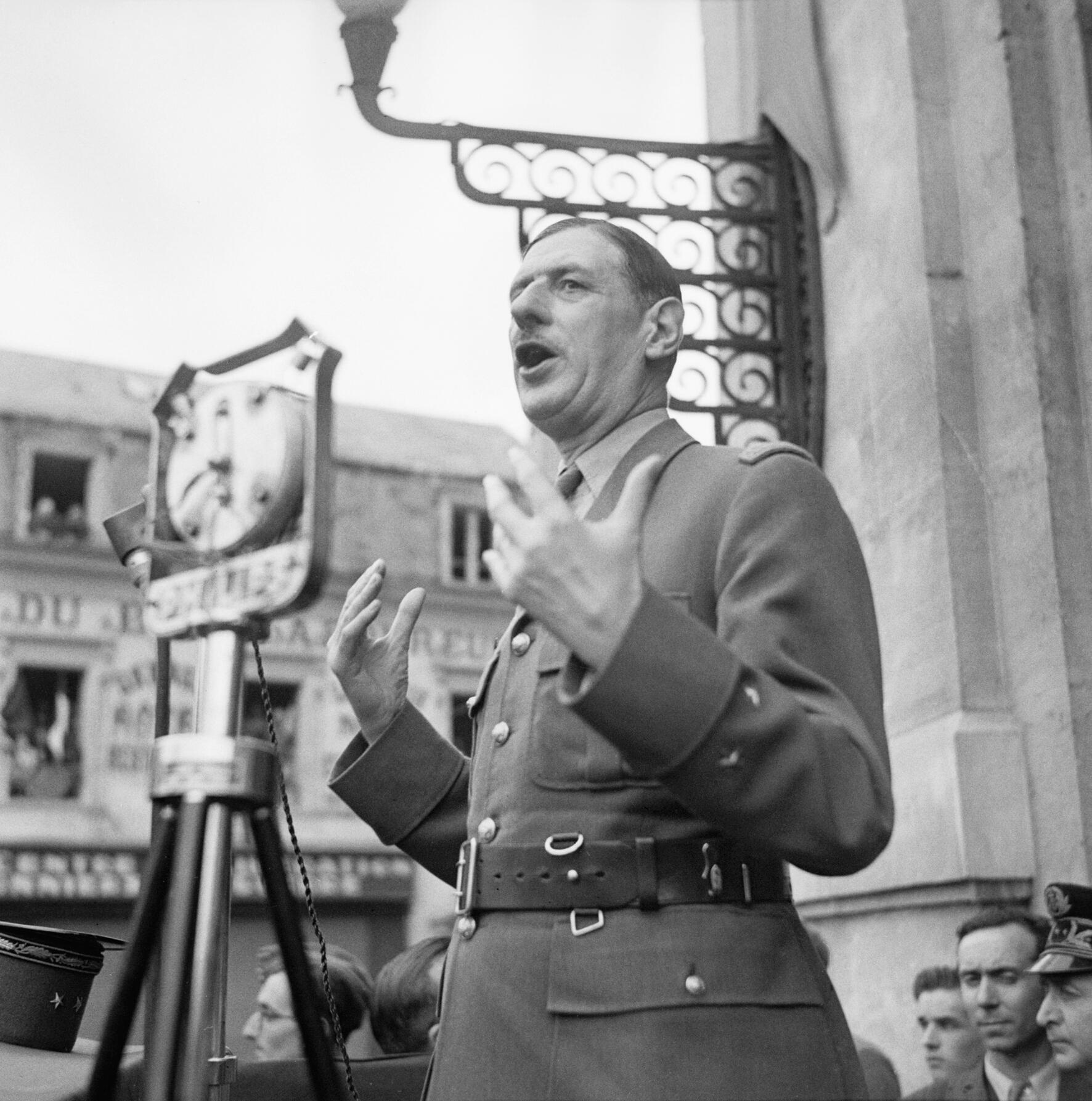 General Charles de Gaulle addressing crowds in Chartres, France, 24 August 1944.